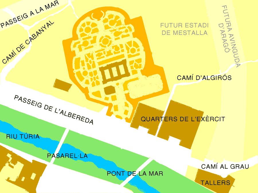 Diagram of the 1909 Valencia Exhibition, according to a map made at the time and photographed in the centenary exhibition.